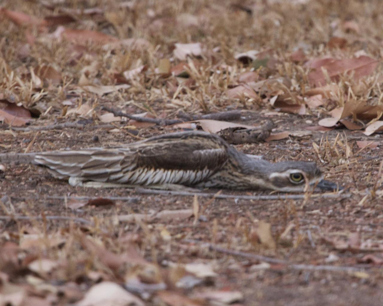 Bush Thick-knee ( Burhinus grallarius) aka Bush stone-curlew Darwin Hospital grounds, Northern Territories, Australia 9th. August 2010 690V0264 690V0264